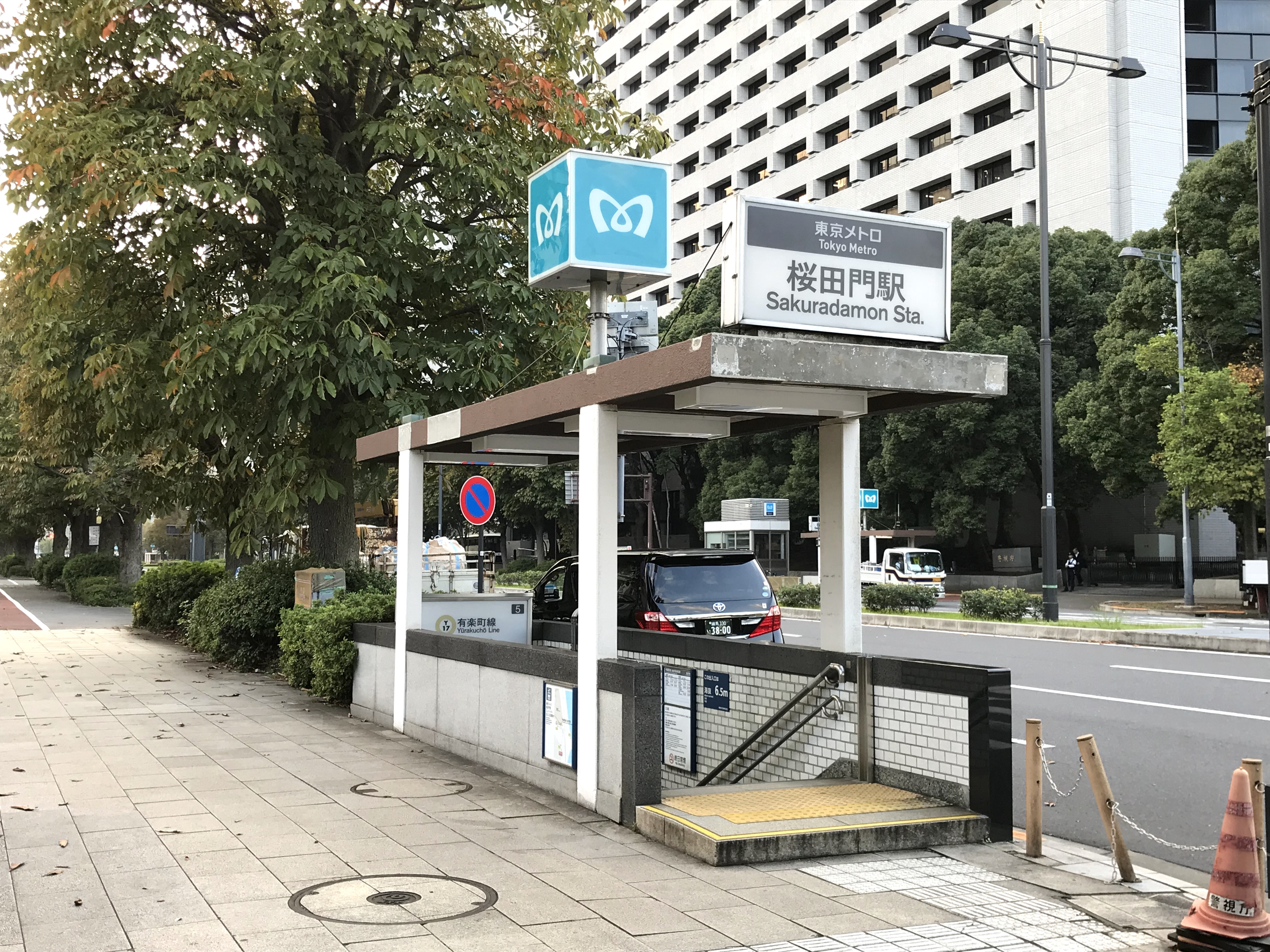 Exit 5 at Sakuradamon Station on the Tokyo Metro Yurakucho Line